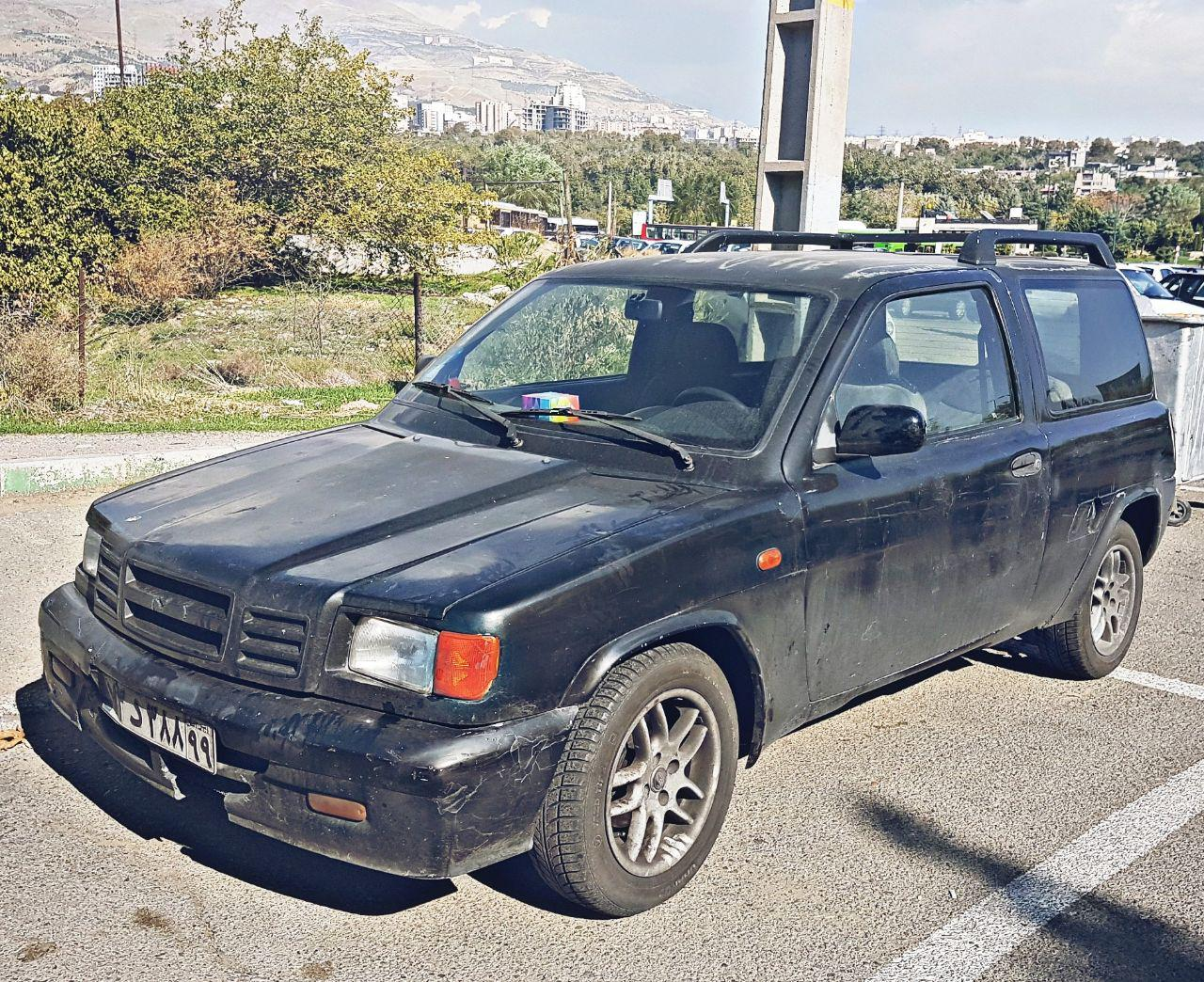 Sinad is an Iranian car by Kish Motors based on a concept by International Automotive Design UK Ltd.